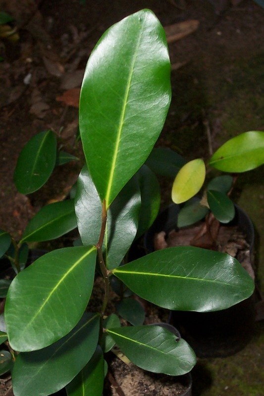 Diospyros australis, juvenile